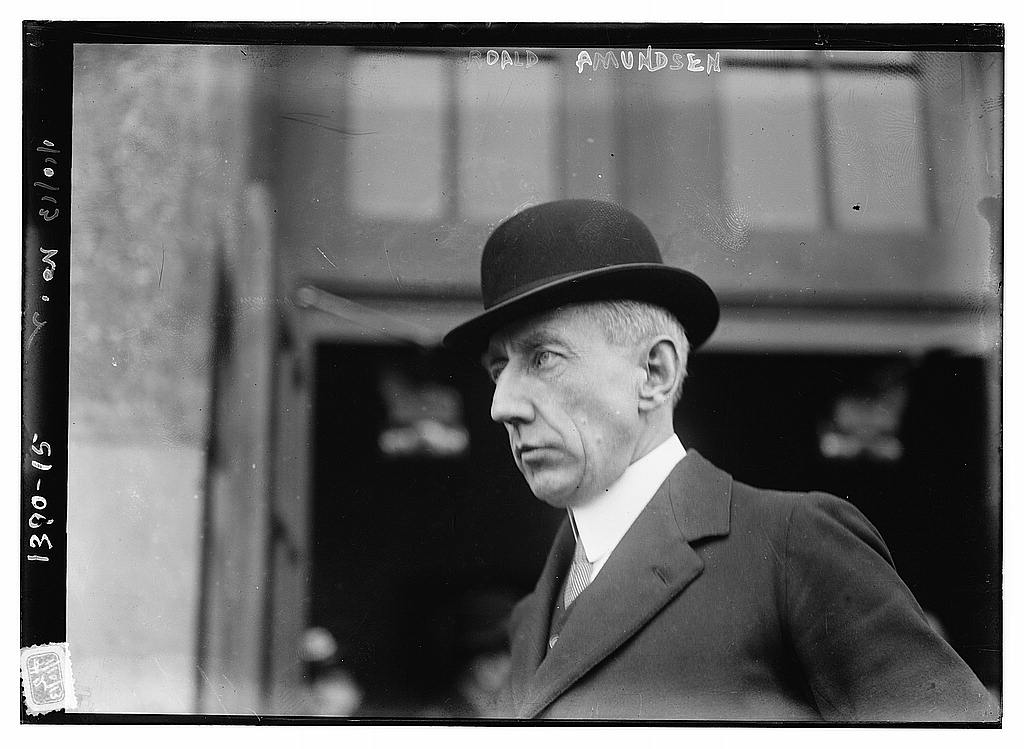 The Norwegian arctic explorer Roald Amundsen.